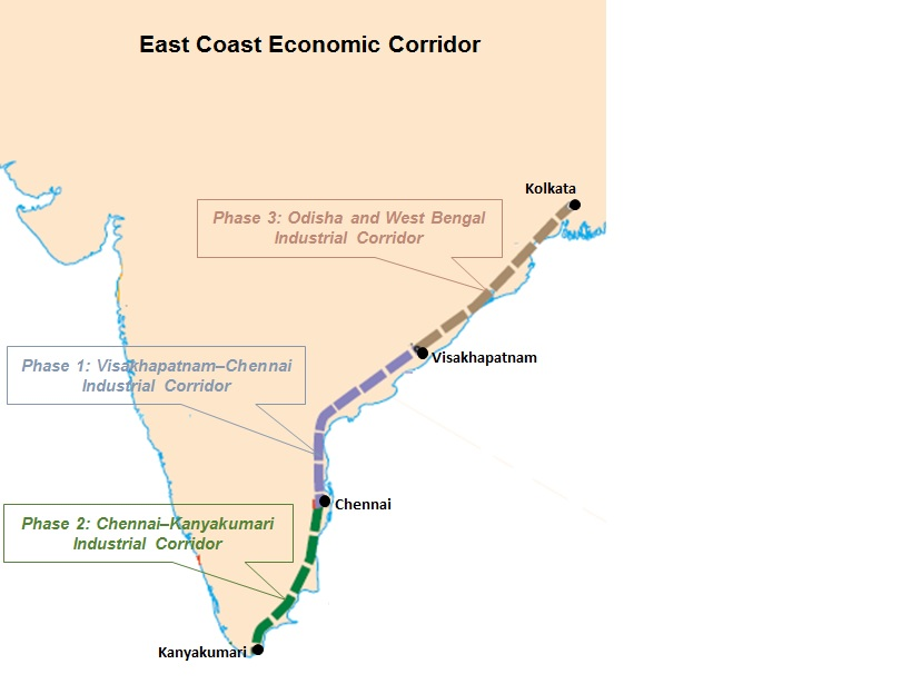 Shows the different phases of ECEC